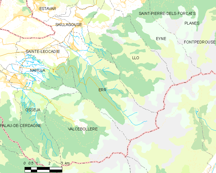 Map of French municipality